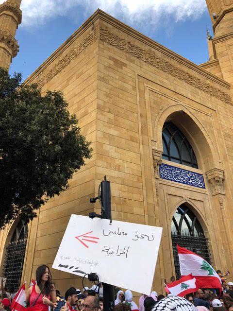 "Towards the Parliament of Thieves" an Arabic sign reads, held by Lebanese protesters in Beirut Photo taken by Jessica Wahab